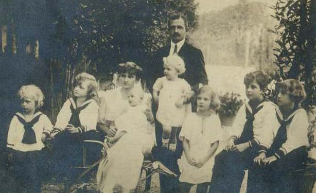 Former Austro-Hungarian emperor Charles I. with his wife Zita and their seven children